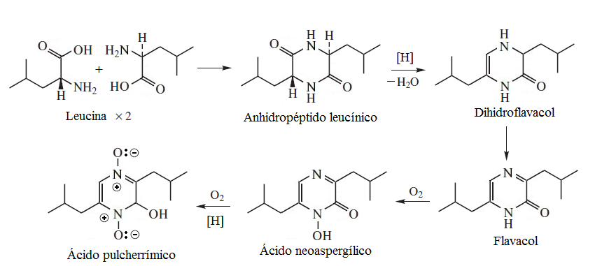 Pulcherrimic acid biosynthesis